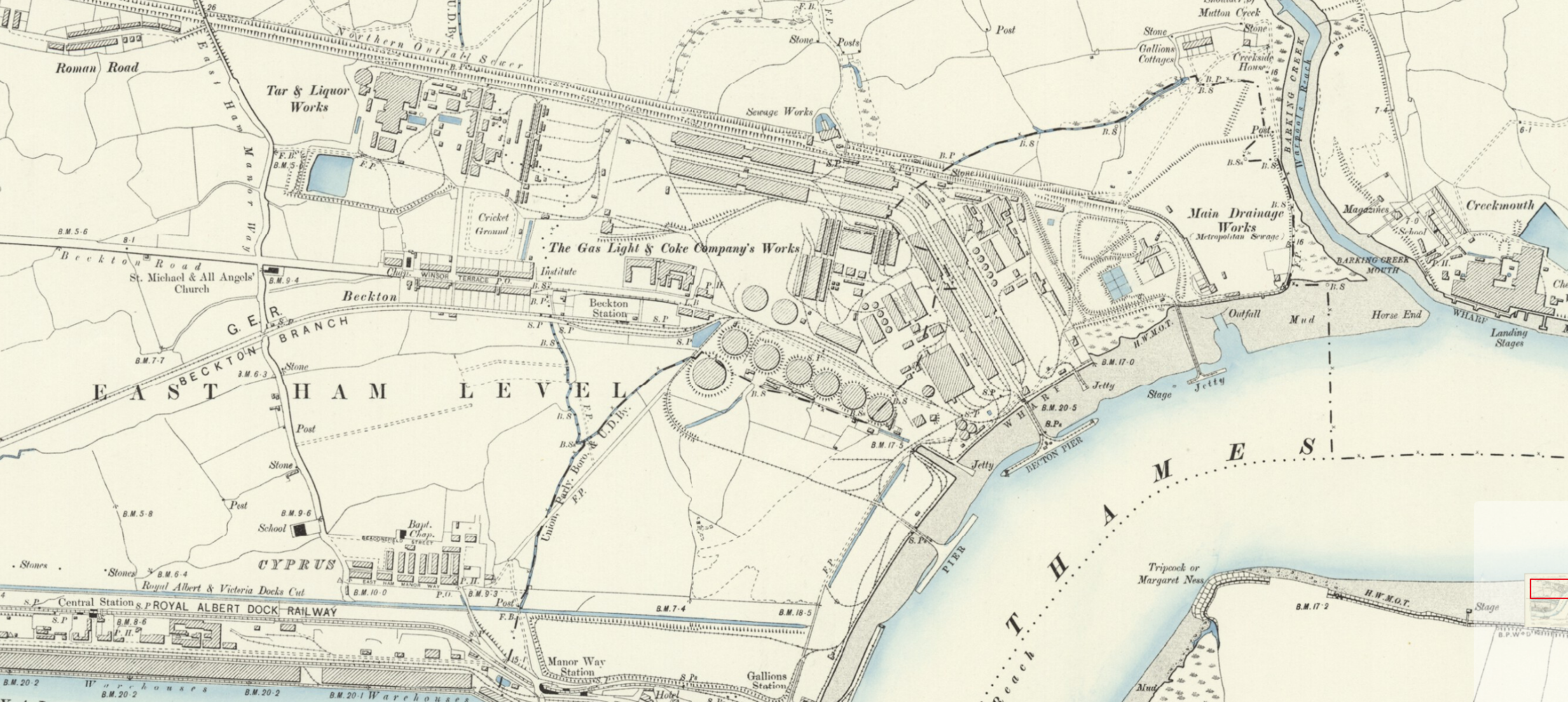 Beckton Gas and Product Works and their location. Extract from Ordnance Survey Six-inch England and Wales 1842-1952. London VIII.SE (includes: Barking; Borough Of Woolwich; East Ham.)